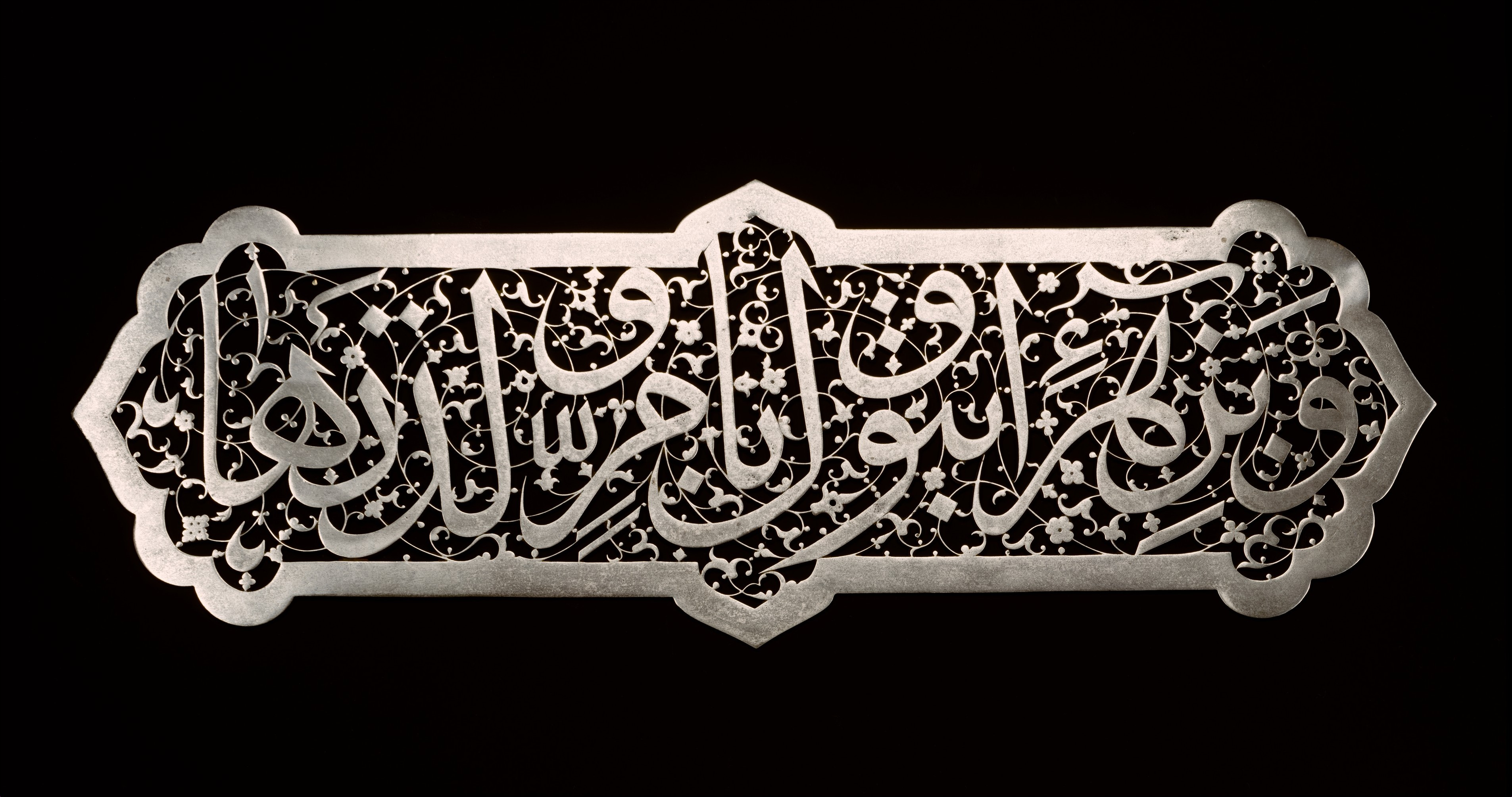 Plaque This piece belongs to a group of eight plaques, each inscribed with a verse from the same shi'ite poem. It is possible that these plaques were set in the wooden doorway to a royal tomb. The striking cartouche shape is created by lobed arches formed at the horizontal ends of the rectangular panel, with smaller arches projecting from each straight border. The pious verse, inscribed in thuluth script, is set against an openwork ground of spiraling arabesque scrolls. Cut-steel panels were a specialty in the sixteenth and seventeenth centuries in Iran, though few survive in such good condition. Cut and pierced steel; L. 15 in. (38.1 cm) Attributed to Iran